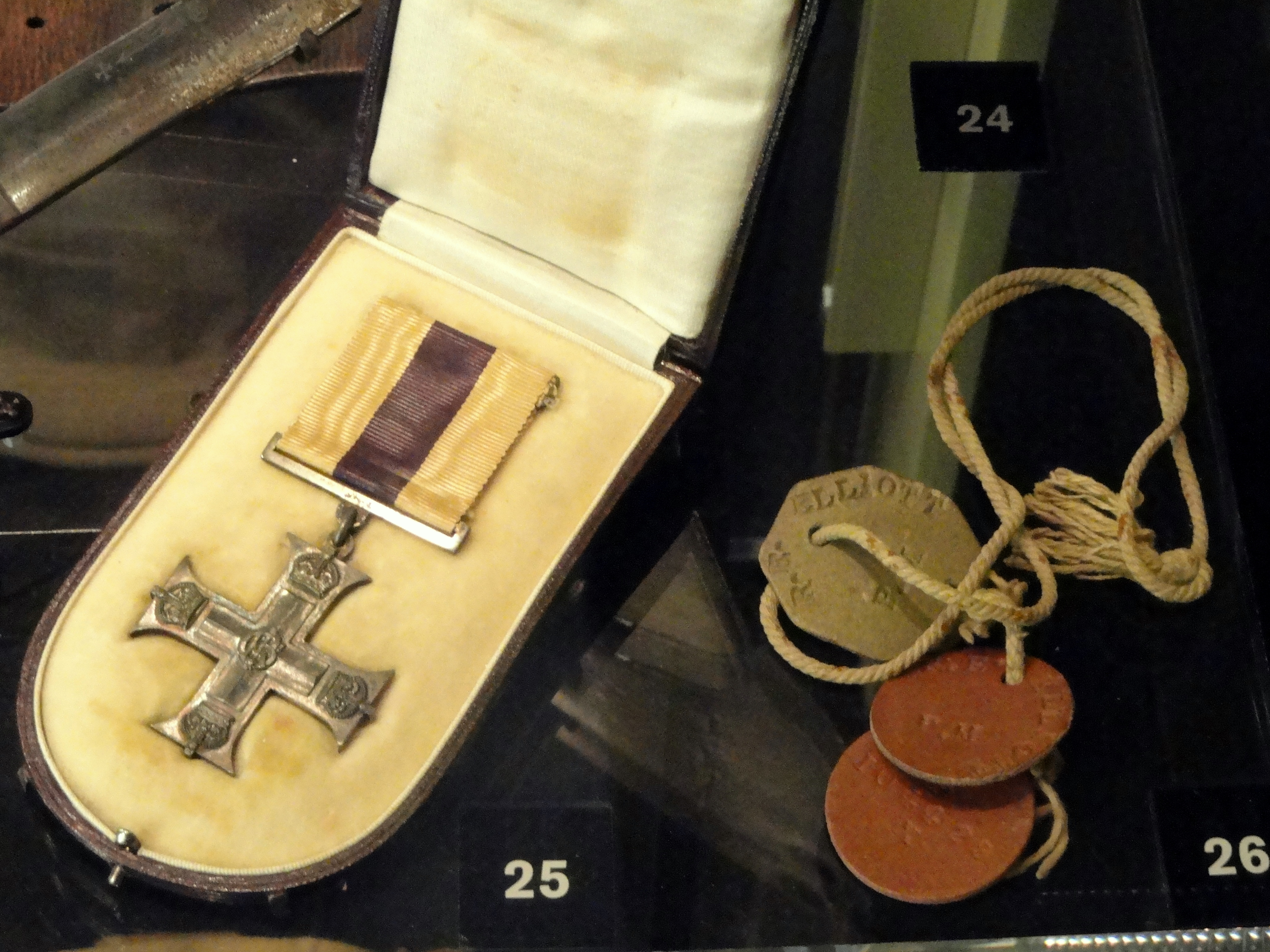 Miscellany exhibited in the National World War I Museum at the Liberty Memorial, 100 W. 26th Street, Kansas City, Missouri, USA.